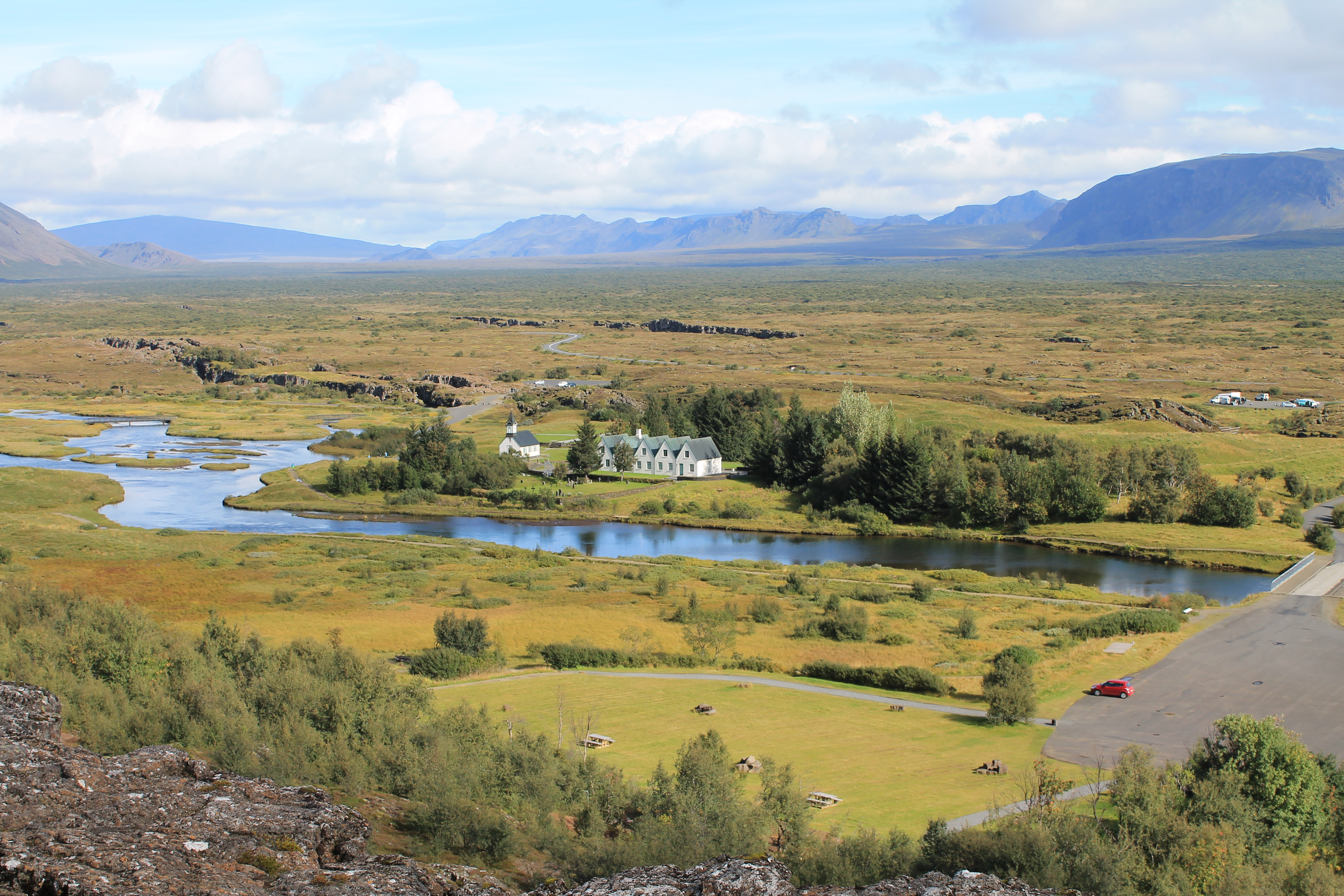 A view of Þingvellir National Park, Iceland from the outlook by the information centre.